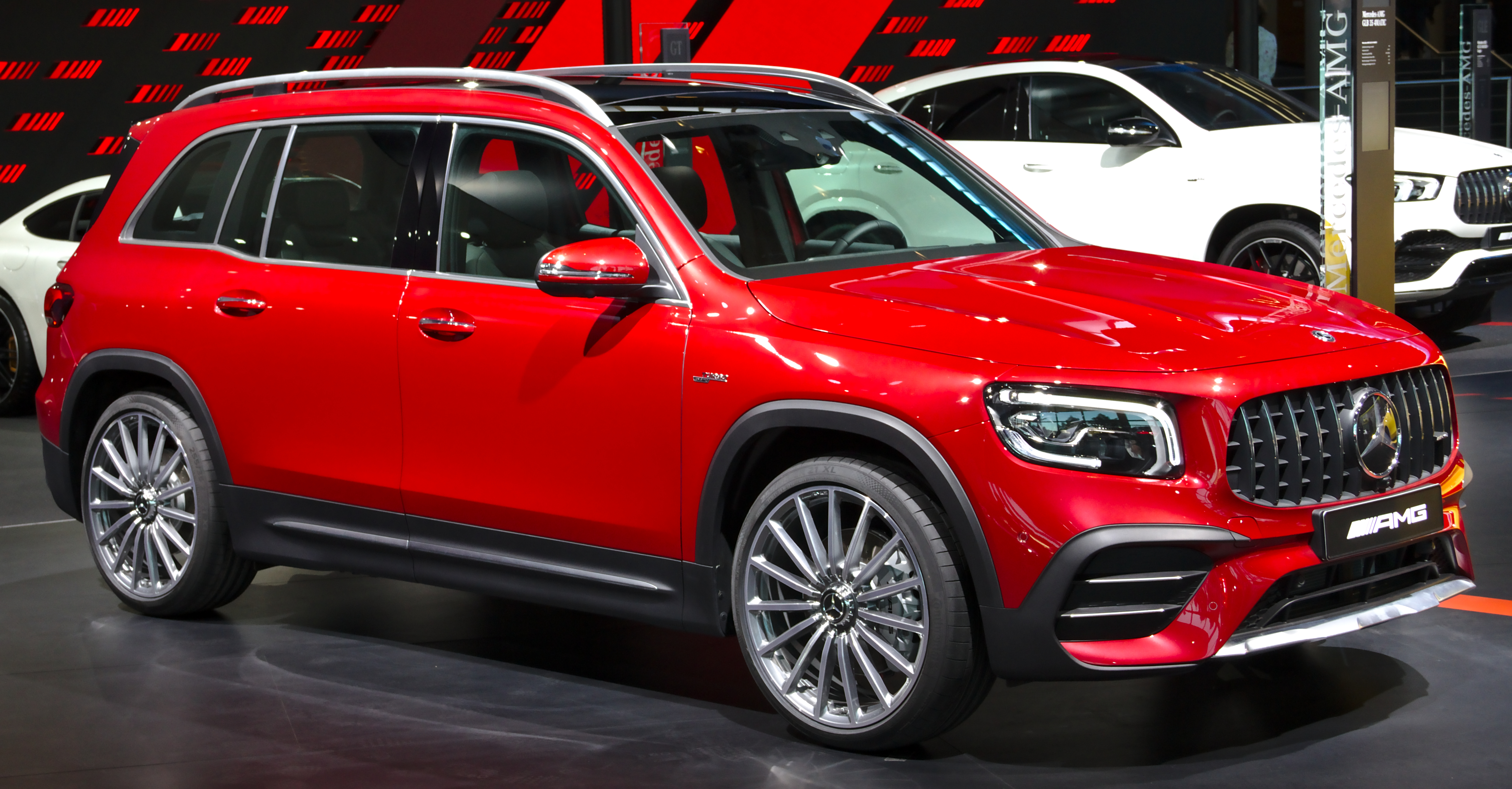 Mercedes-AMG_GLB_35_4MATIC_(X247) at IAA 2019